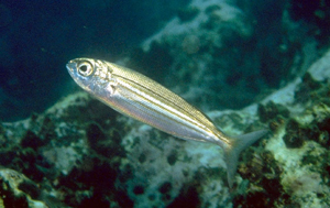 Picture of Boops boops